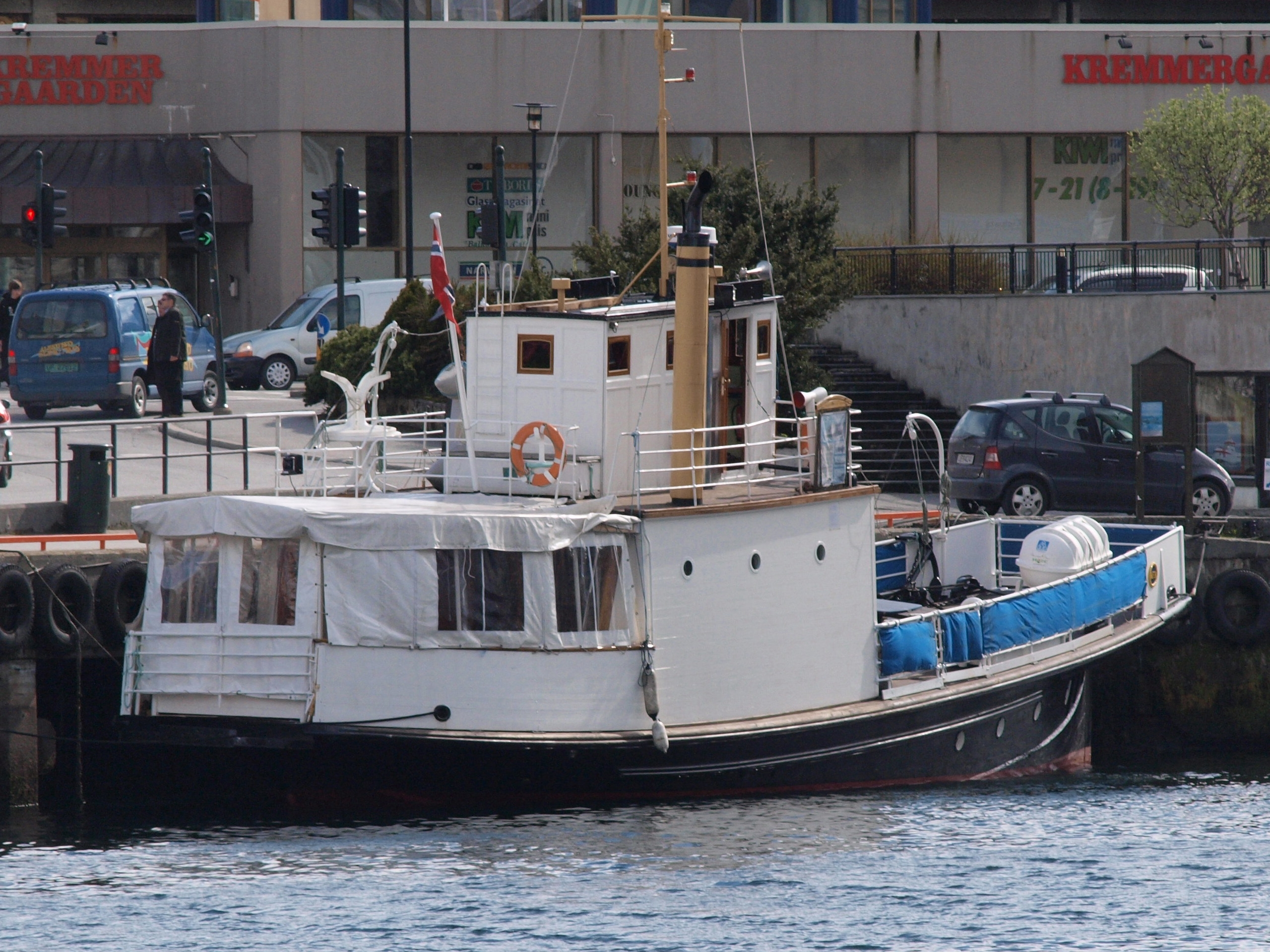 MF «Bilfergen»